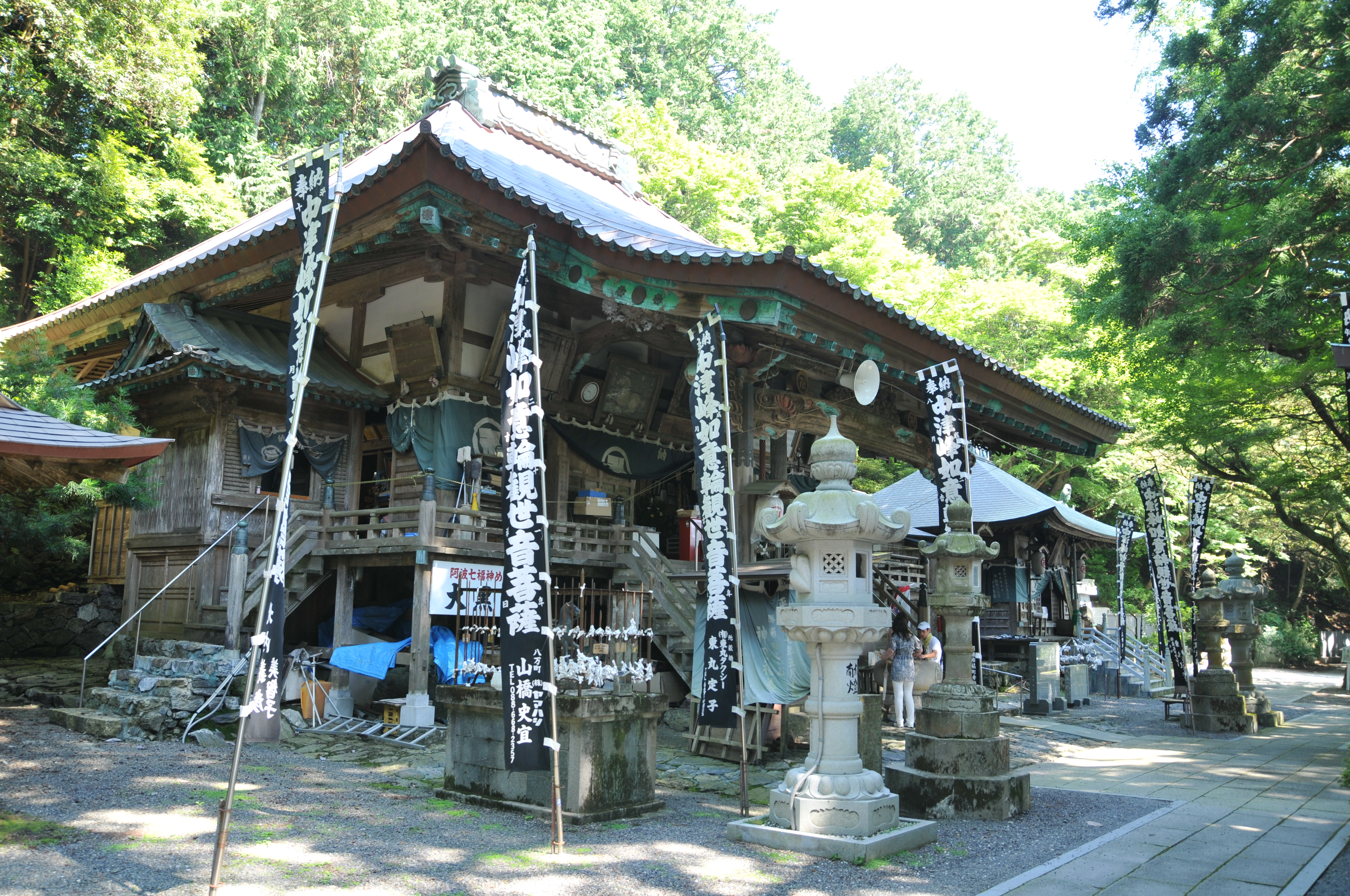 Main hall, Nyoirin-ji